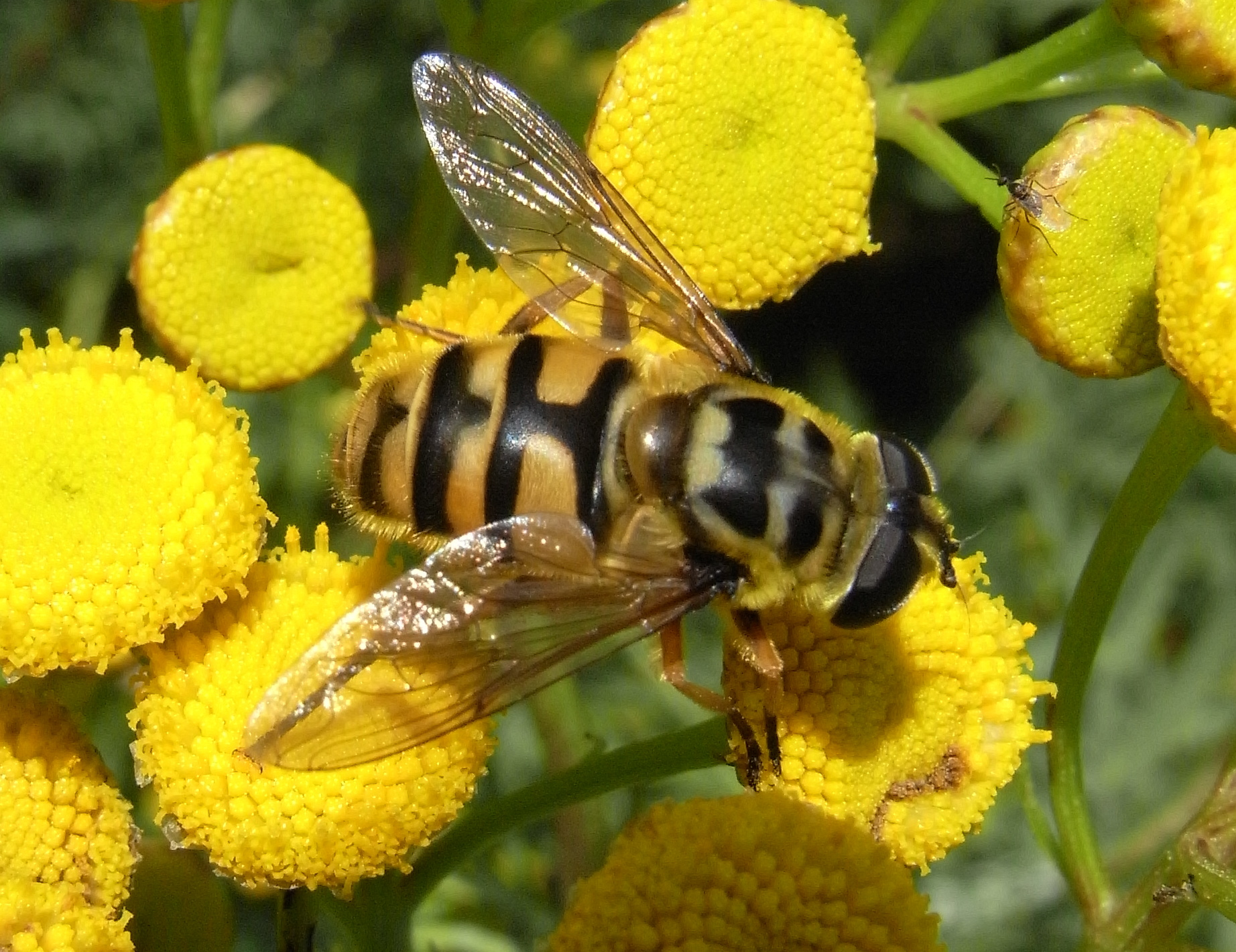 Female hoverfly (Myathropa florea).